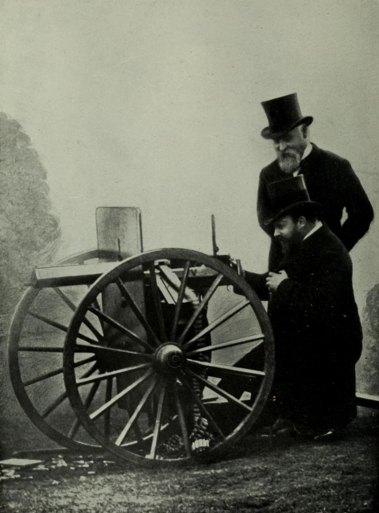 "Edward VII Firing a Maxim Gun."